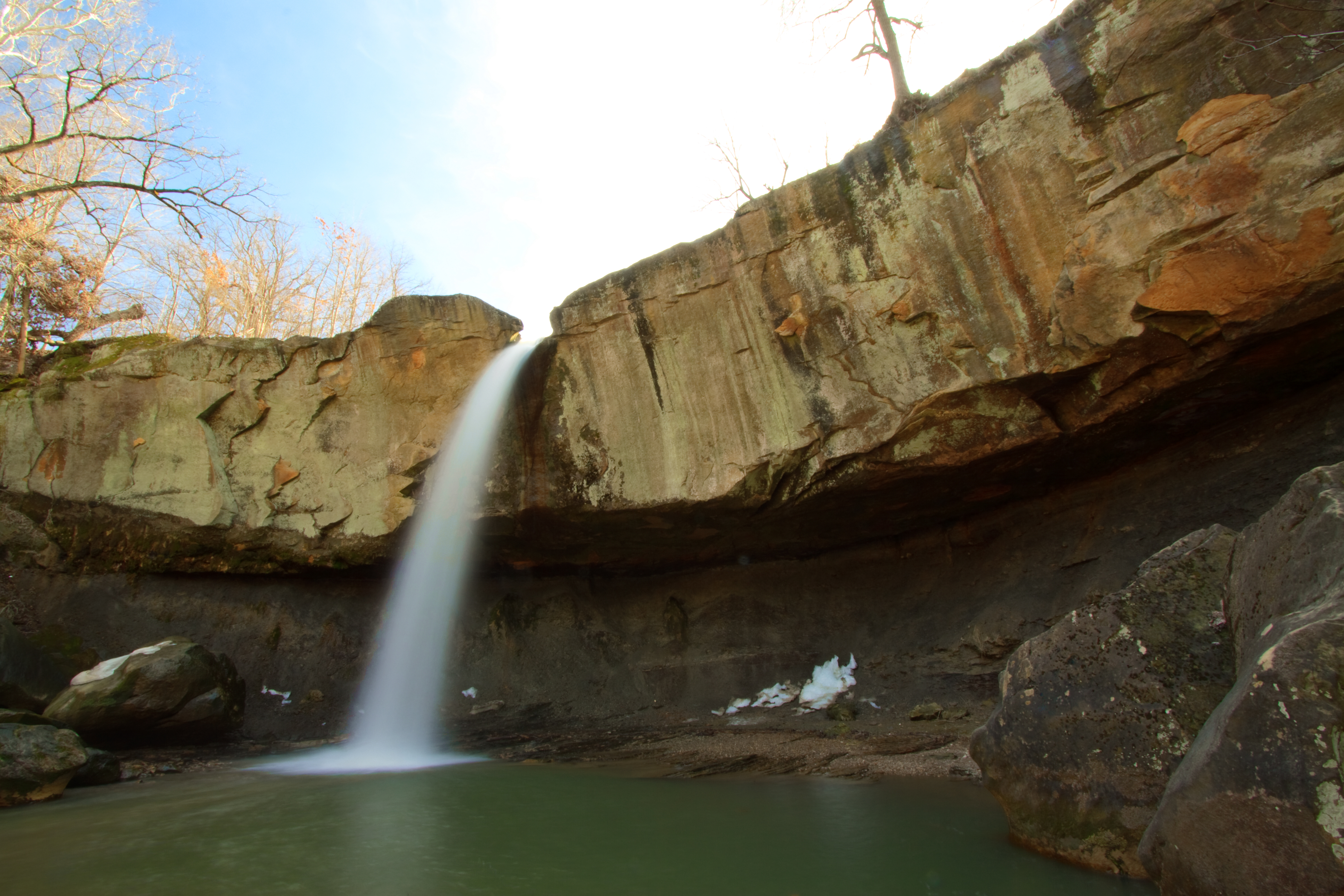 Williamsport Falls March 2010